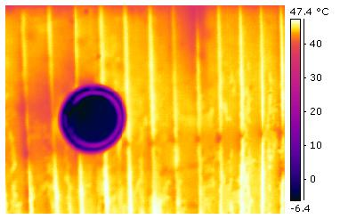 Sunny Wall Thermograph